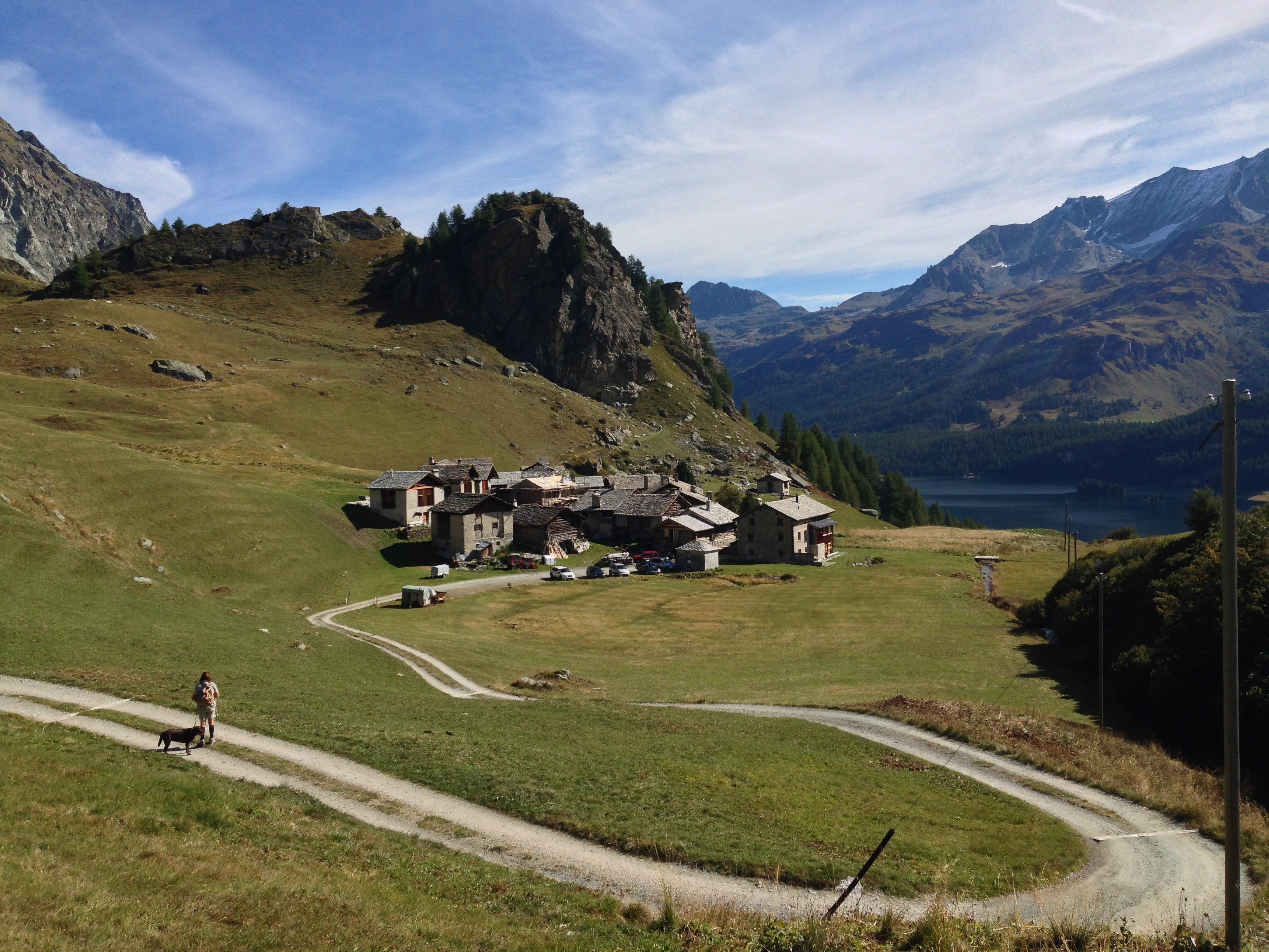 Grevasalvas seen from south west